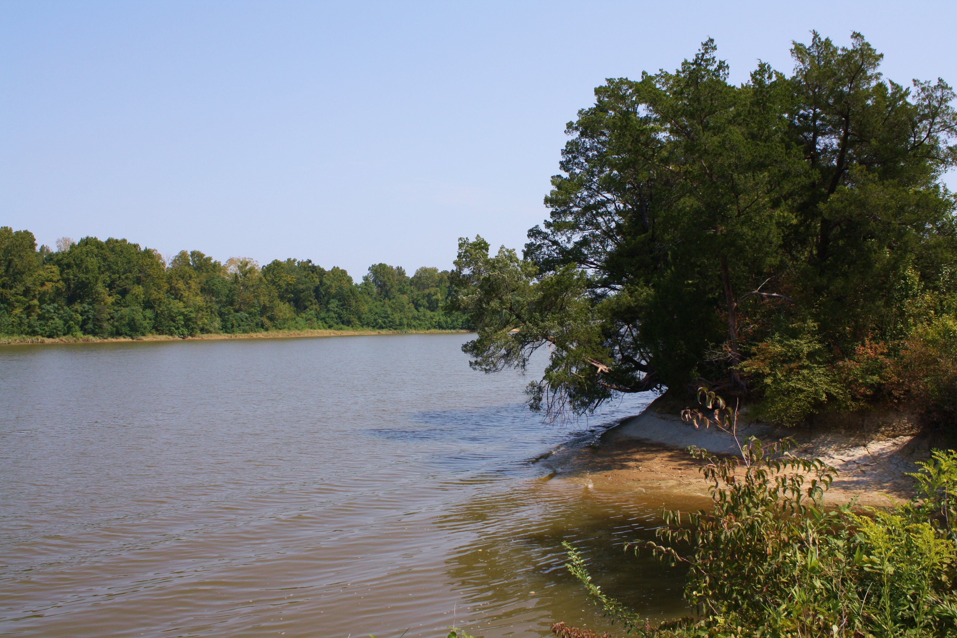 The Tombigbee River at Riverside Cemetery in Demopolis.